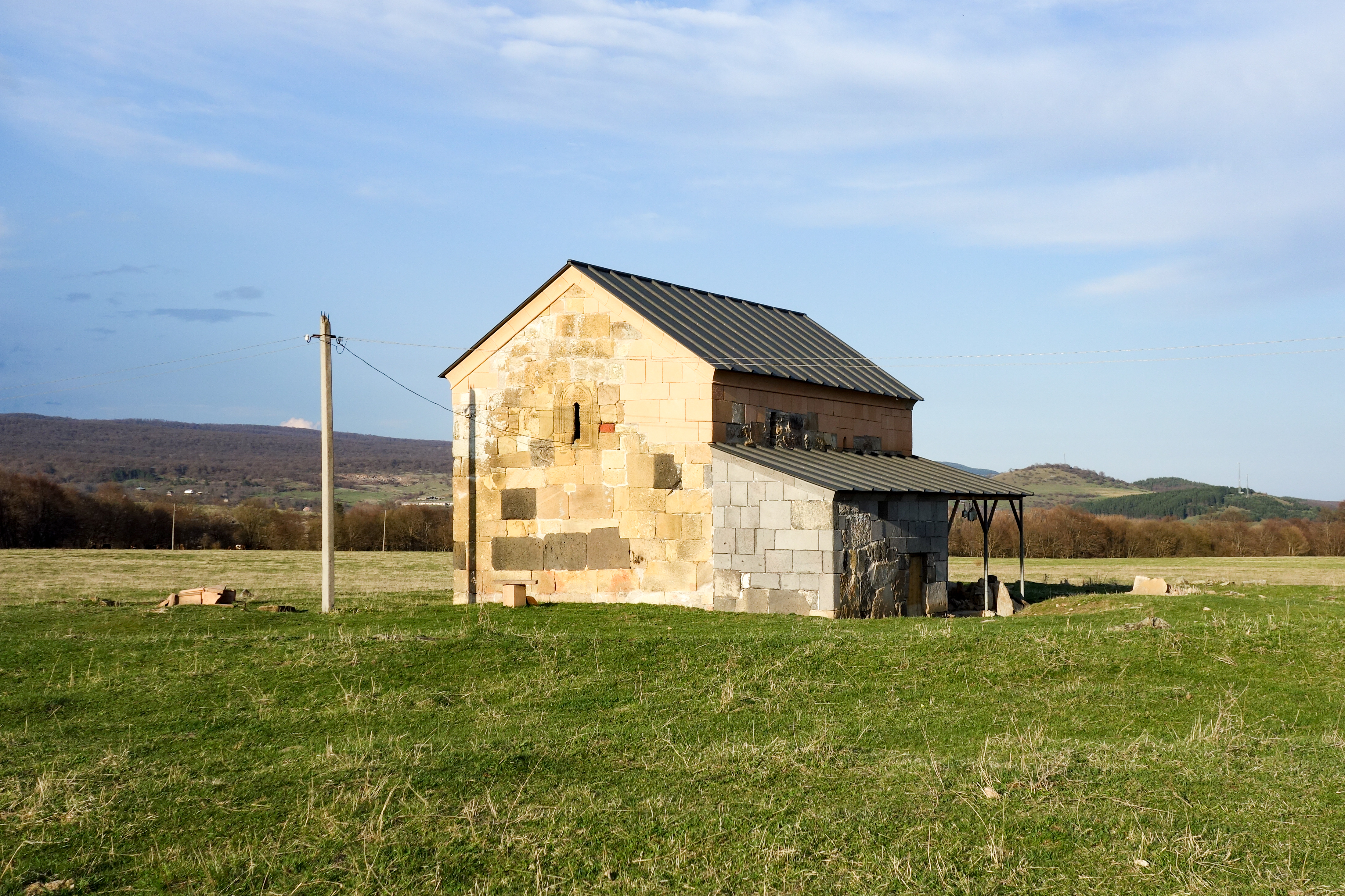 Draneti Church (X-XI cc.), Alekseevka, Kvemo Kartli, Georgia